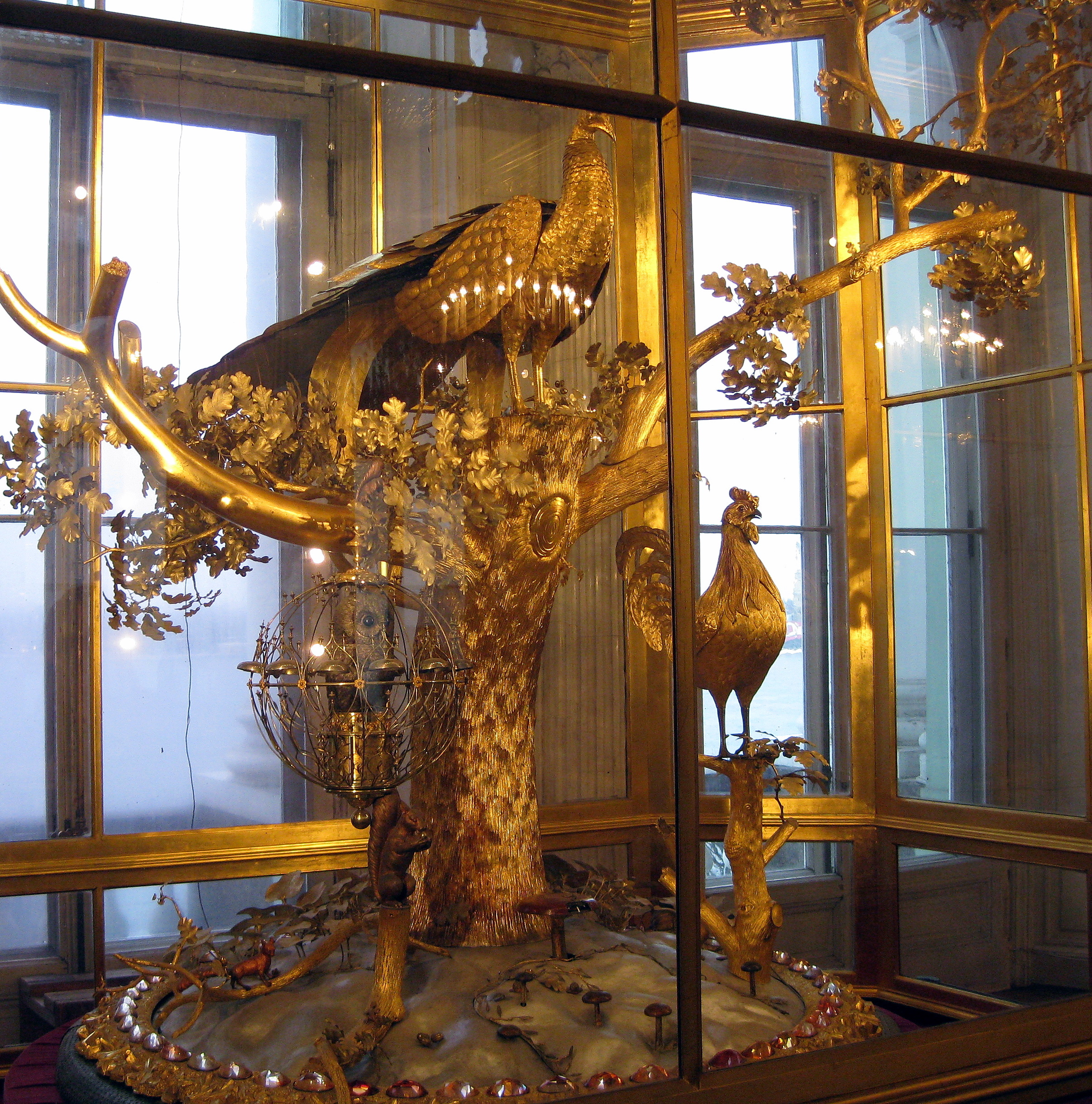 The Peacock Clock in the Pavilion Hall of the Hermitage Museum, designed by James Cox in 1772.